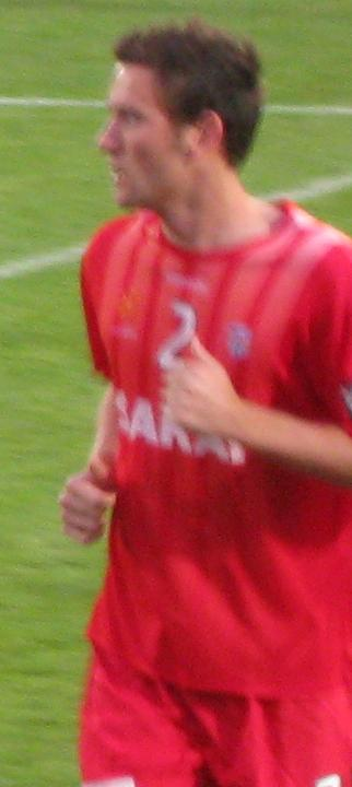 Cornthwaite warming up before an AUFC match against Newcastle in the A-League, at Hindmarsh Stadium on the 27 September 2008.